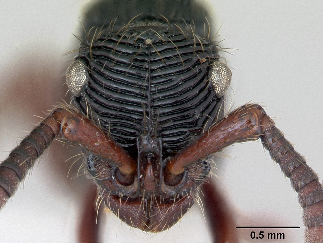 Head view of ant Cerapachys crawleyi specimen casent0173074.